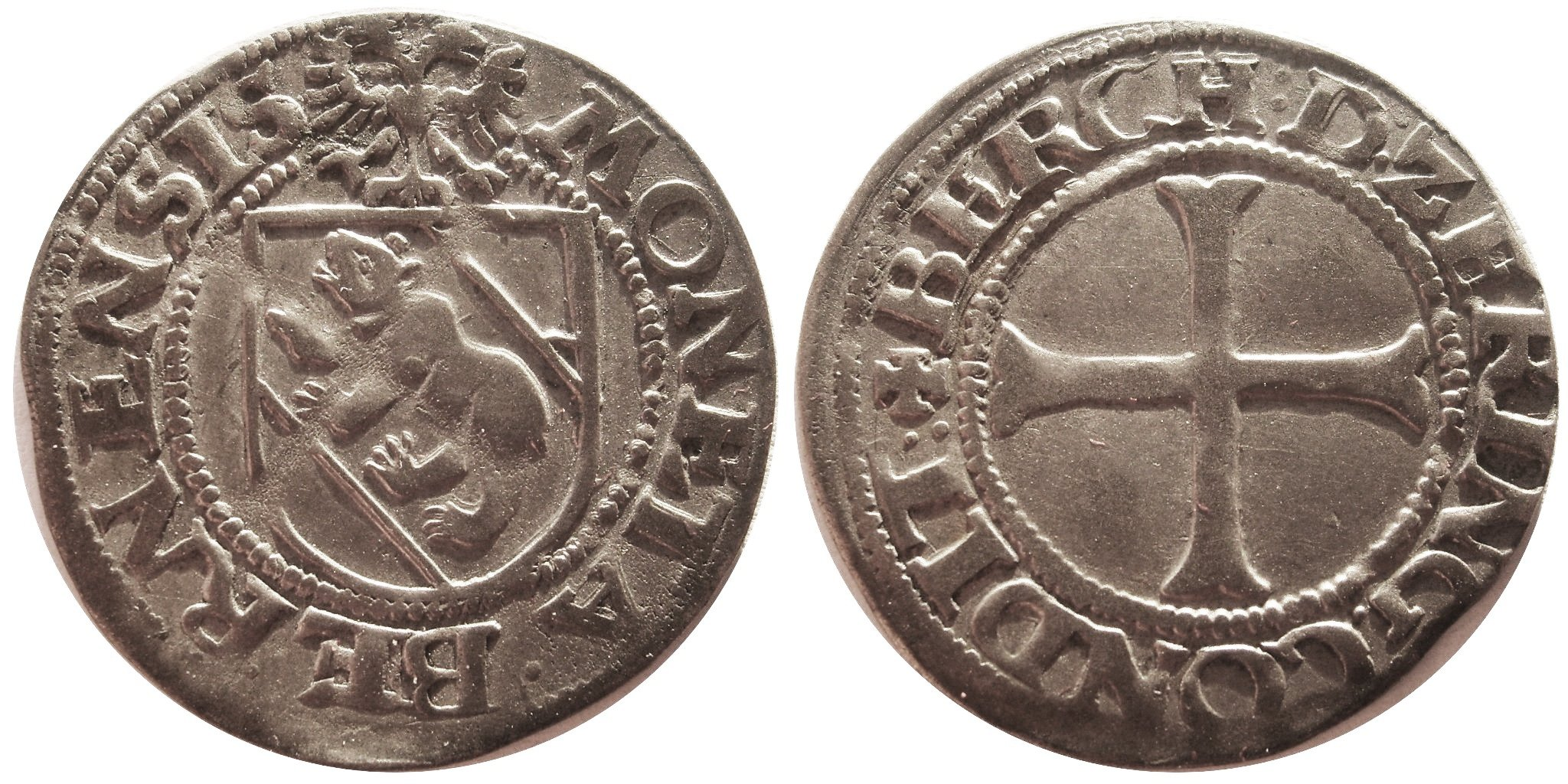 1 batz, 16th century.